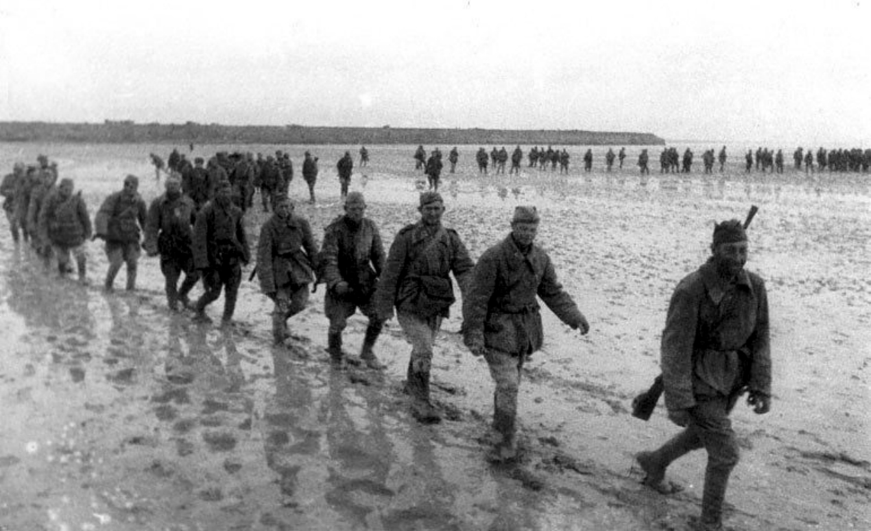 Soviet soldiers crossing the Syvash to the Crimea.